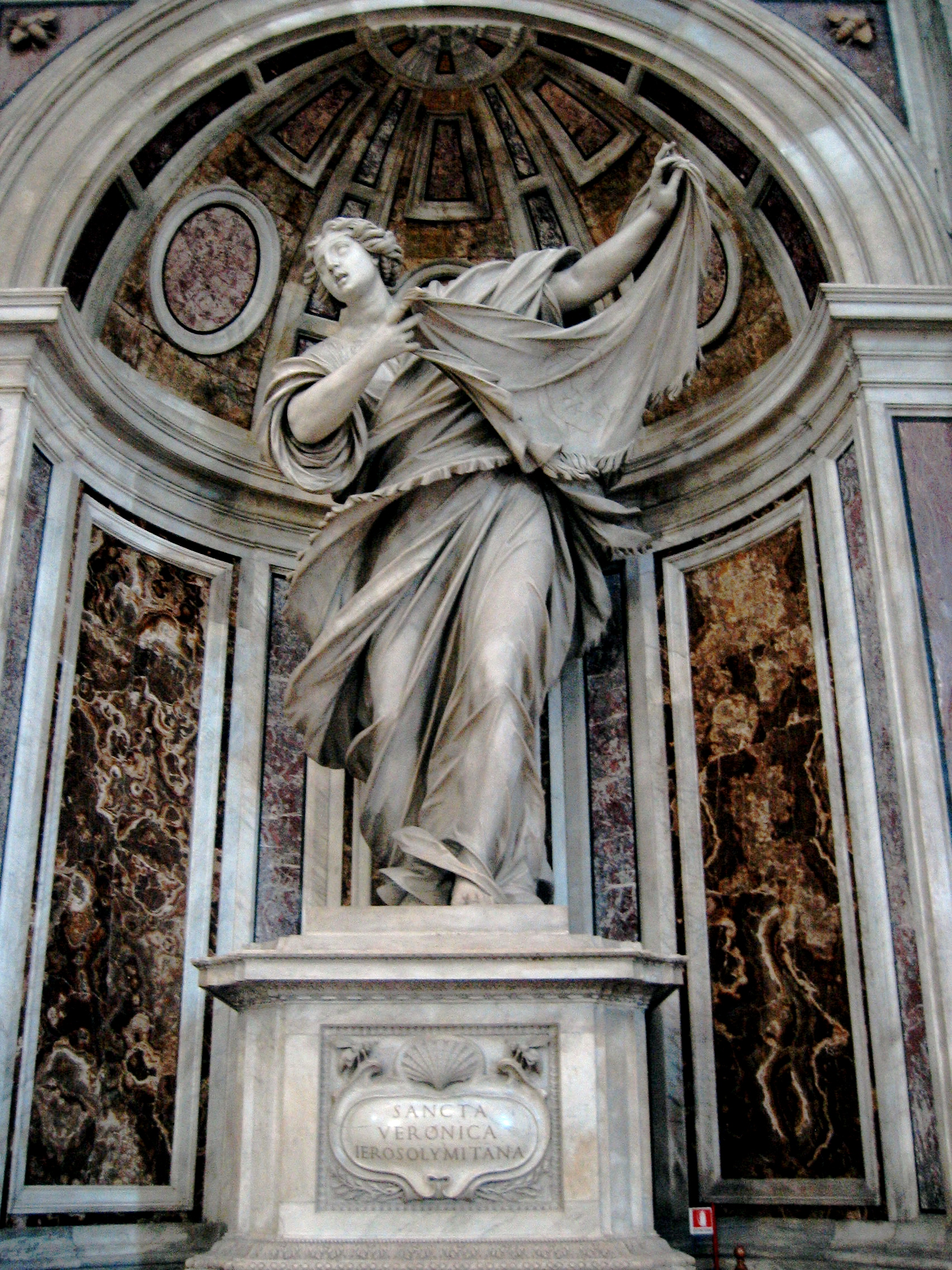 The shrine to Saint Veronica in Basilica di San Pietro, Vatican City. The epigraph read "Sancta Veronica Ierosolymitana" (St. Veronica of Jerusalem)